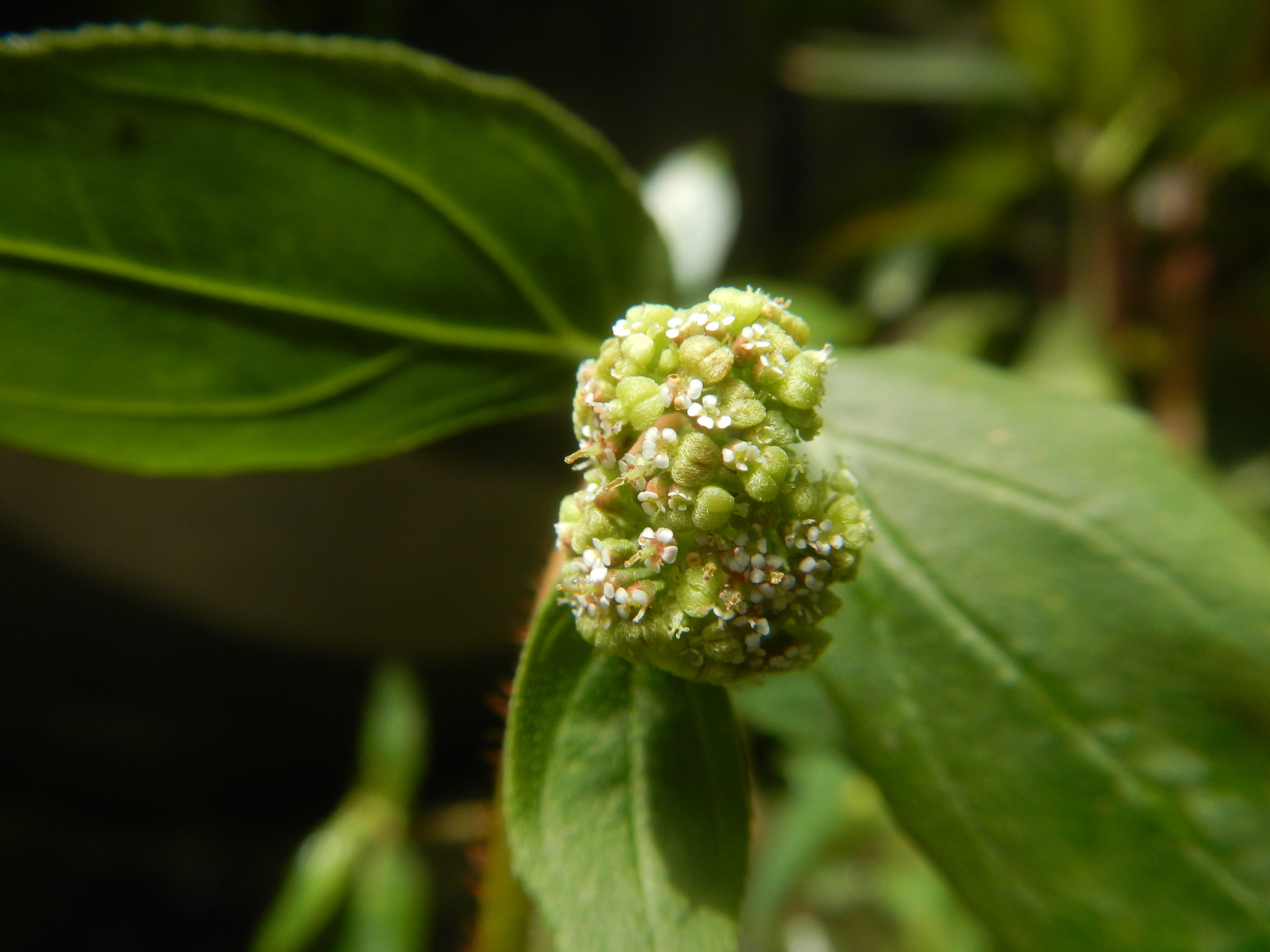 Tawa-Tawa Orchidaceae Grammatophyllum scriptum (Linn.) Blume Bell Orchid Euphorbia hirta taken in Barangay Poblacion 14°57'17"N 120°54'2"E, Baliuag, Bulacan, Bulacan province (Note: Judge Florentino Floro, the owner, to repeat, Donor Florentino Floro of all these photos Judge Floro hereby donate gratuitously, freely and unconditionally all these photos to and for Wikimedia Commons, exclusively, for public use of the public domain, and again without any condition whatsoever).